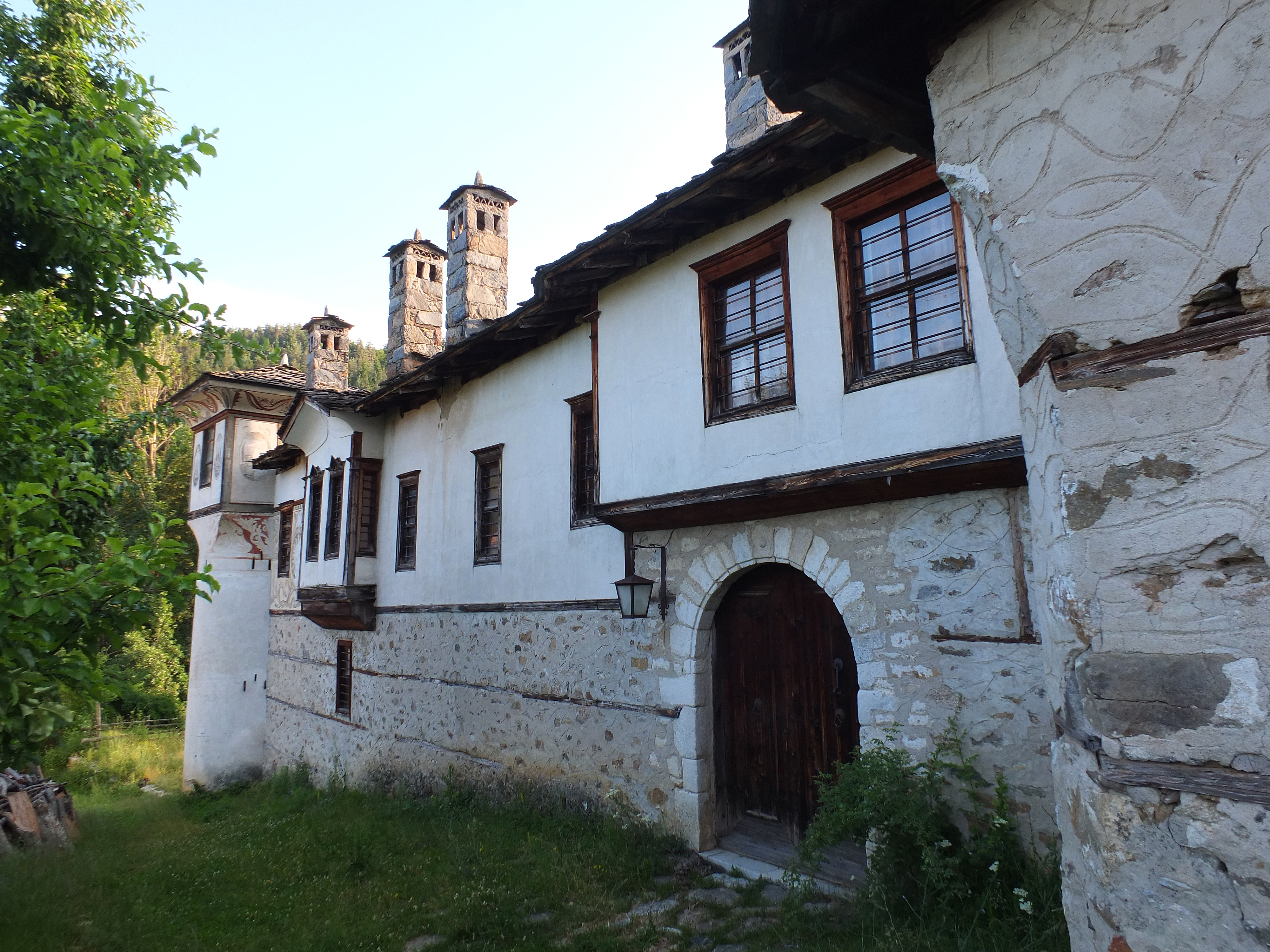 Agushevi konatsi near Mogilitsa village